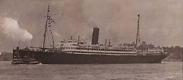 The British liner SS Orduna in New York after surviving a U-boat attack